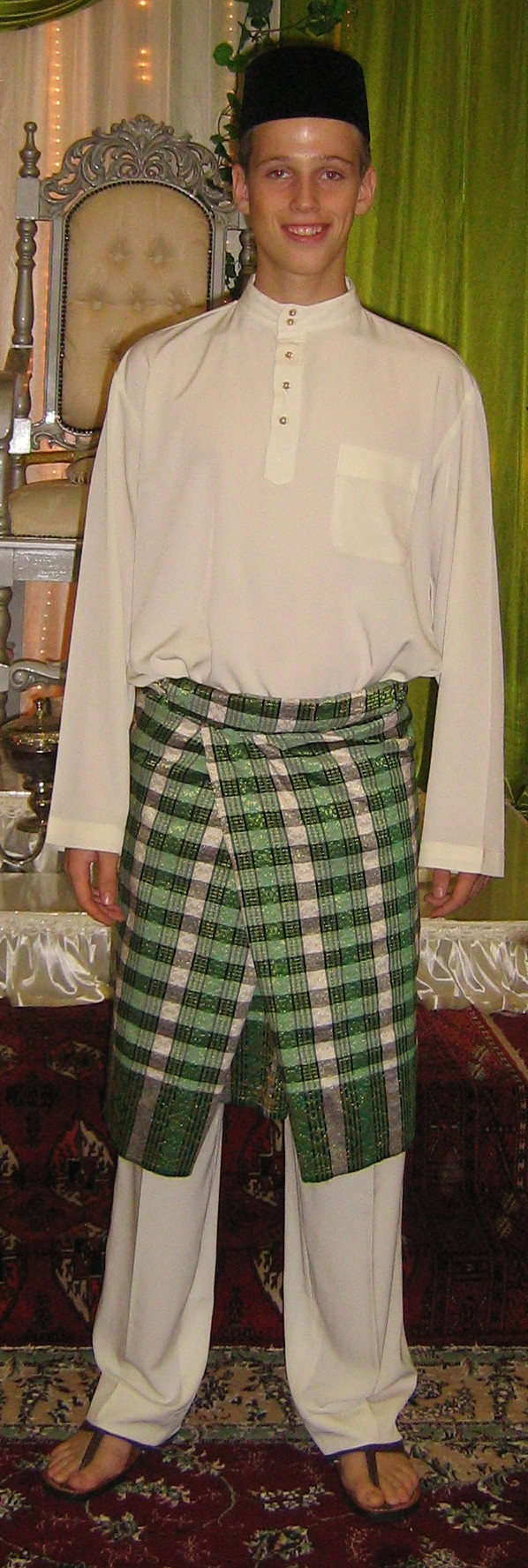 baju melayu + samping + songkok (picture of myself)